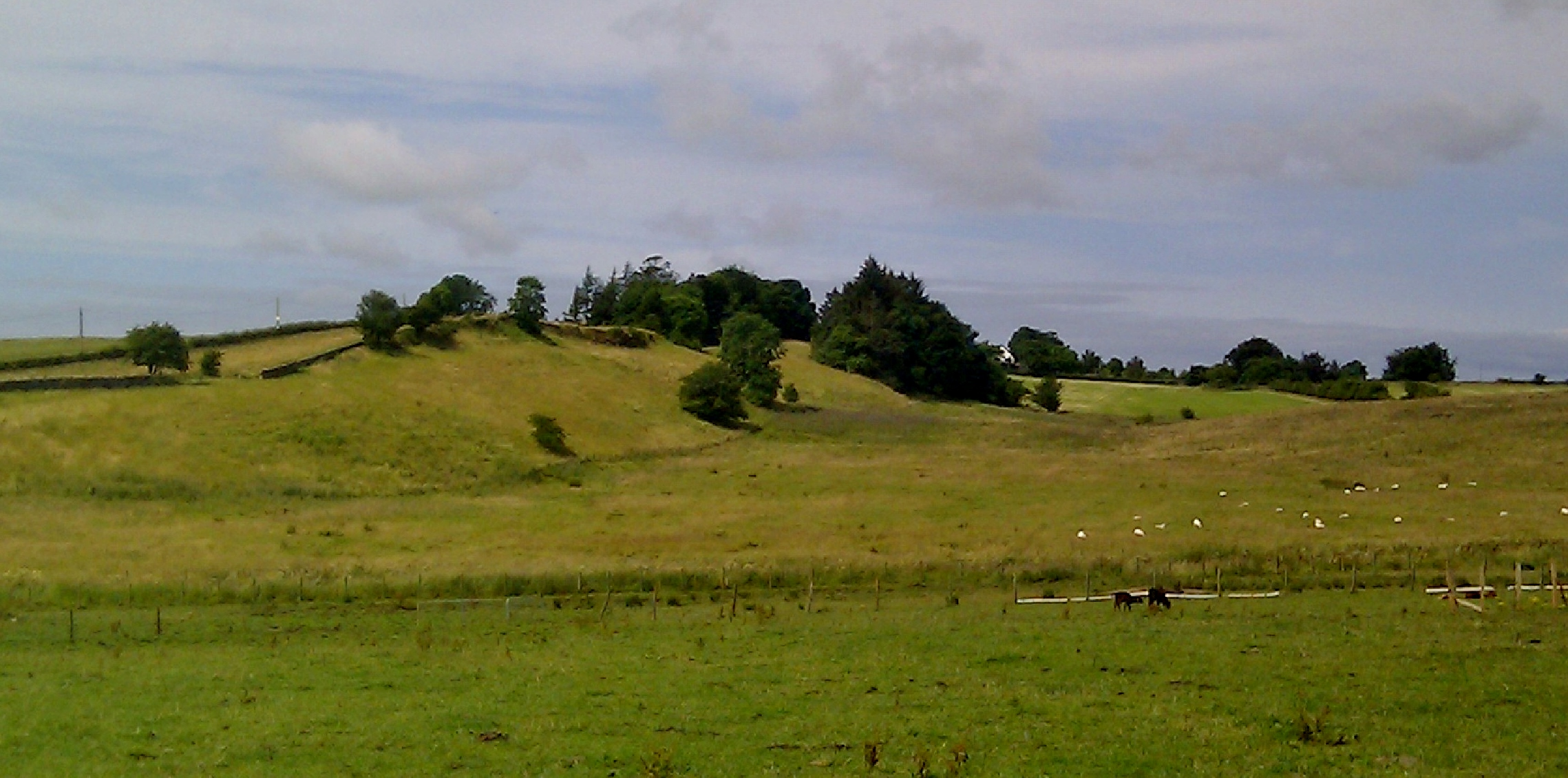 Giffen Craigs was the site of the old Giffen Castle and the abandoned farm of Giffen Banks lies to the right of the picture. Barrmill, North Ayrshire, Scotland.